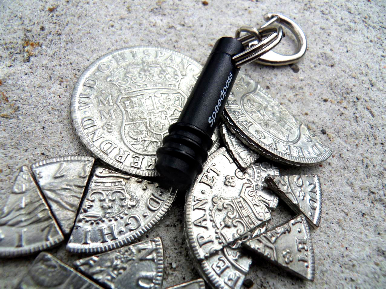 An Exxon Speedpass with Spanish Pieces of Eight (replicas) spanning hundreds of years of the history of money.